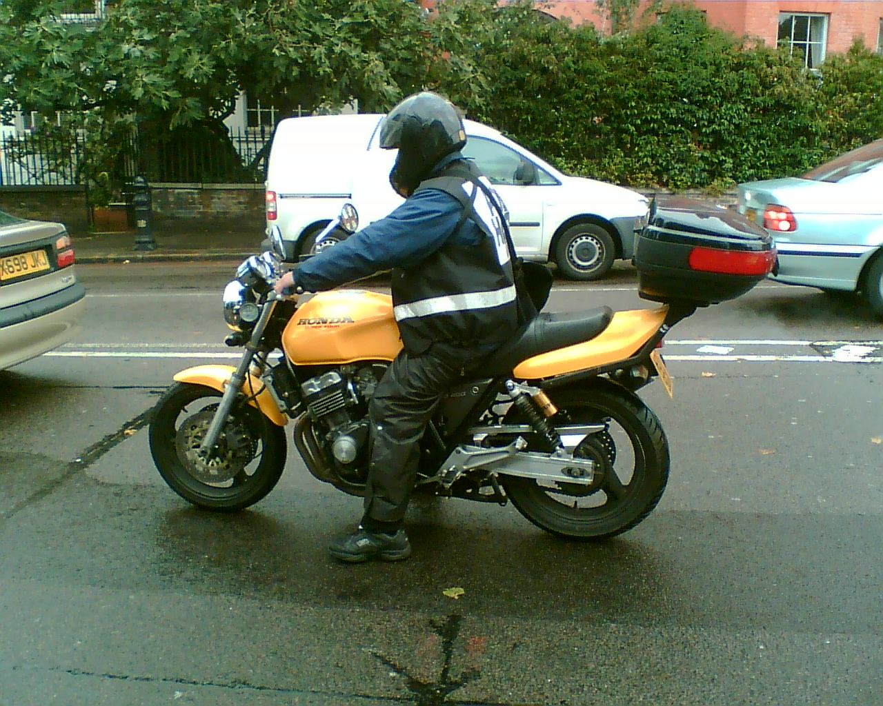 Motorcycle courier, London 2007. (Taken with Nokia 6230i by Battersea Bridge).